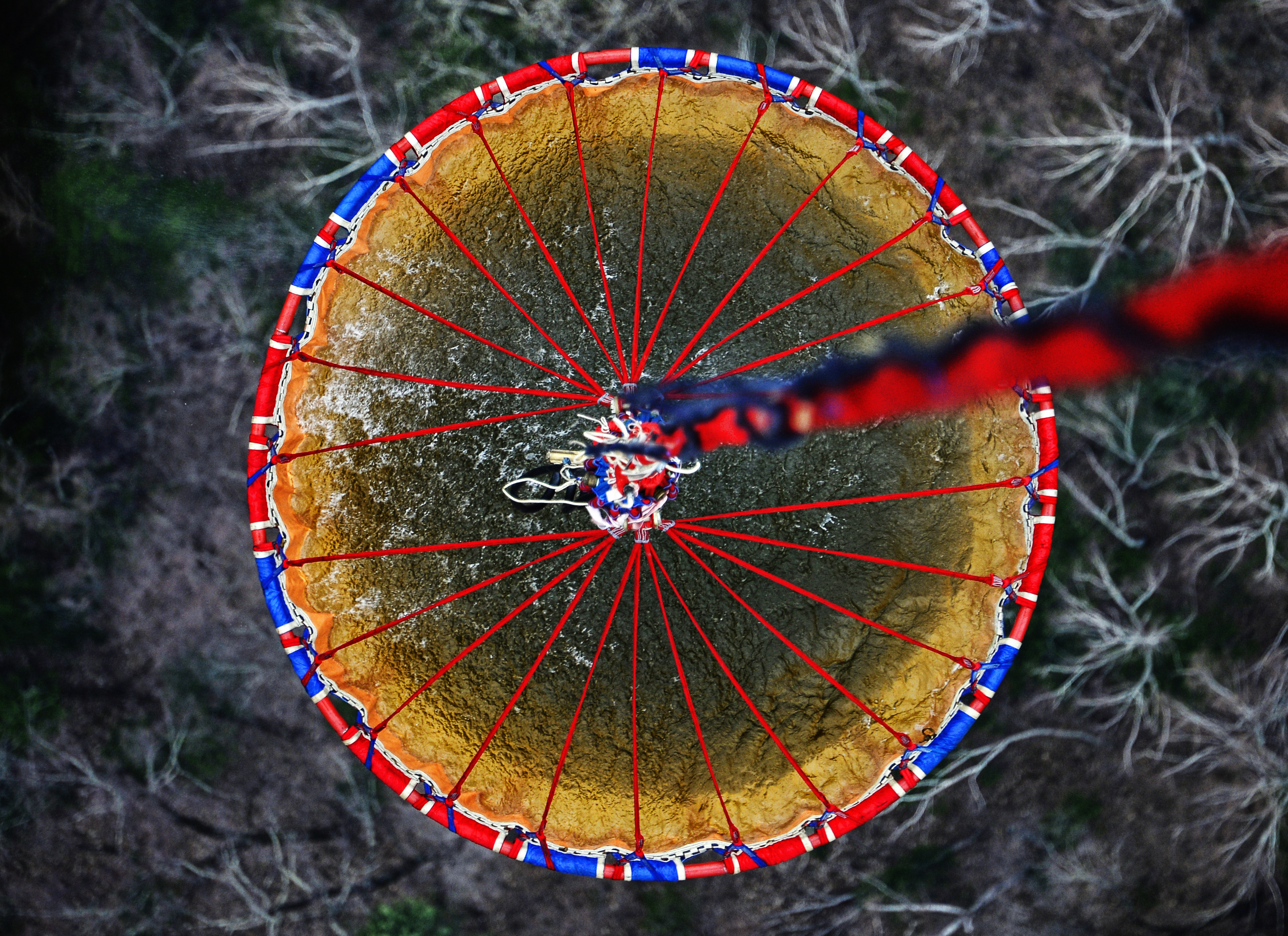 Water for use in aerial firefighting being carried in a bucket attached to a MChS Mil Mi-26 heavylift helicopter in the Vladivostok region.